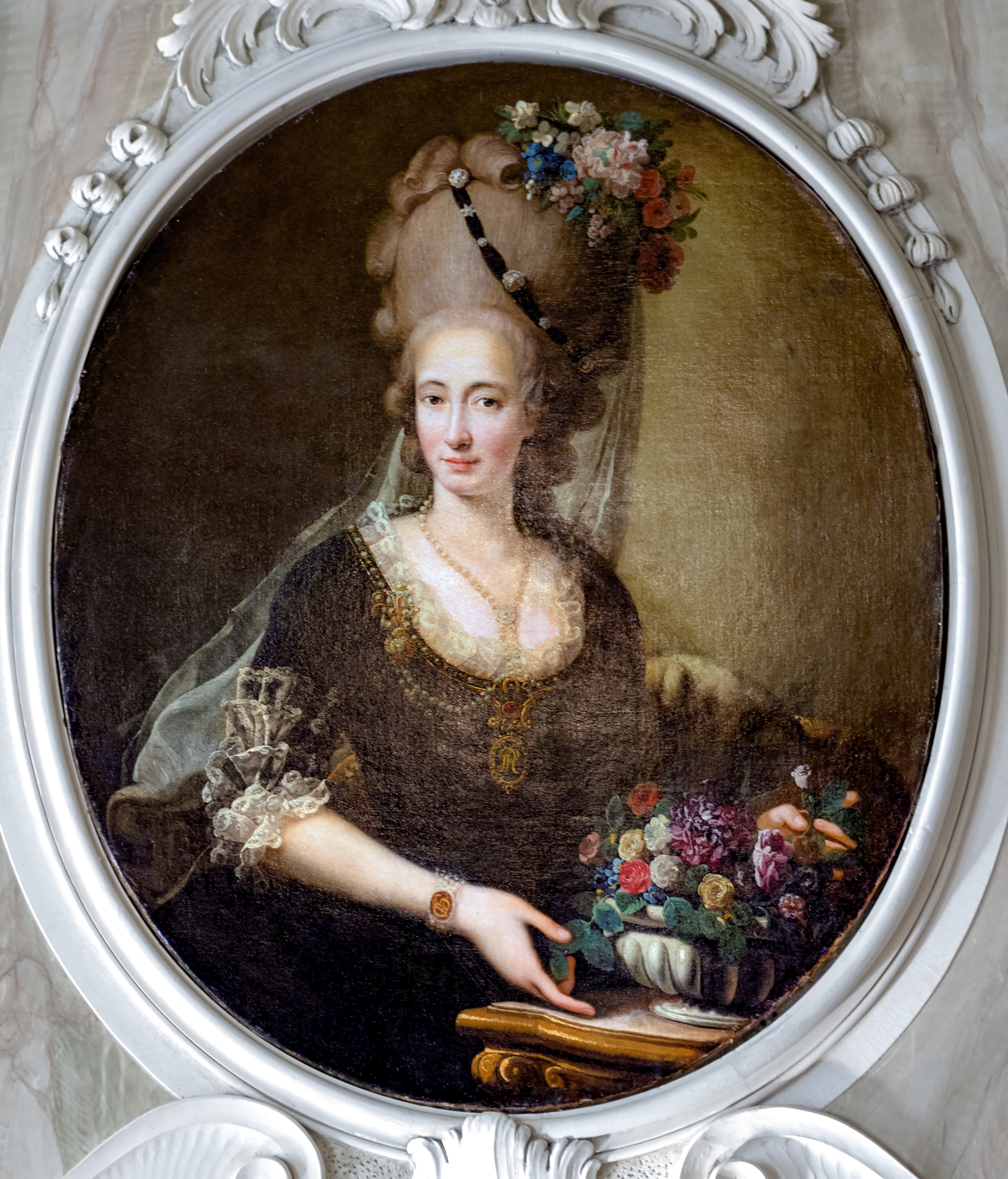 Portrait of Giustina Donà slab Rose wife of Paolo Renier 119th Doge of Venice